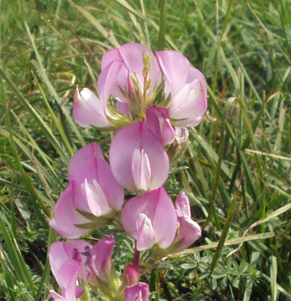 Ononis spinosa, spiny restharrow, in flower, growing in Lower Austria. Taken by Stemonitis on the 19th of September 2004.